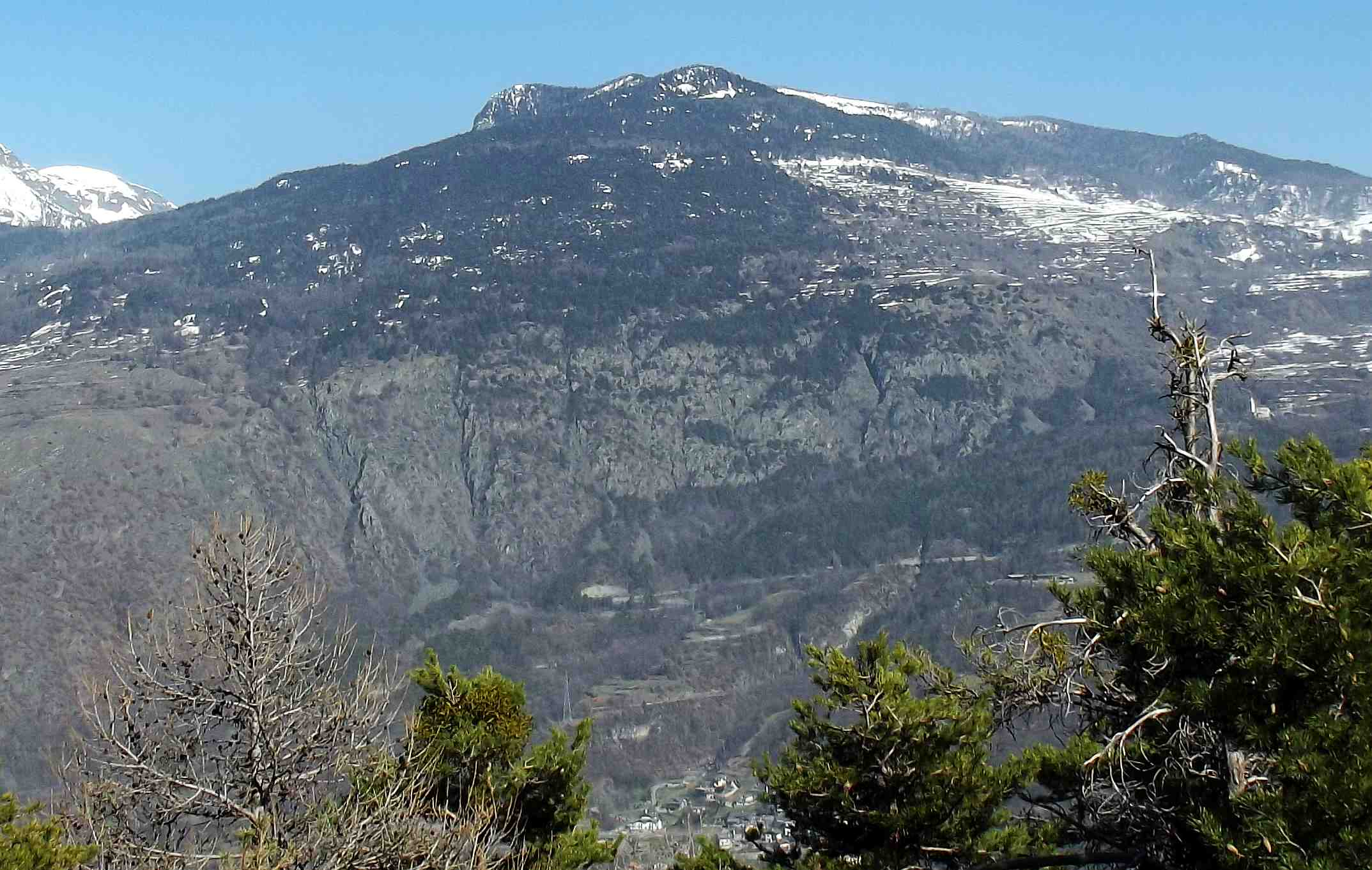 Testa di Comagna (AO, Italy) seen from Rodoz (Montjovet); on its left the Col de Joux